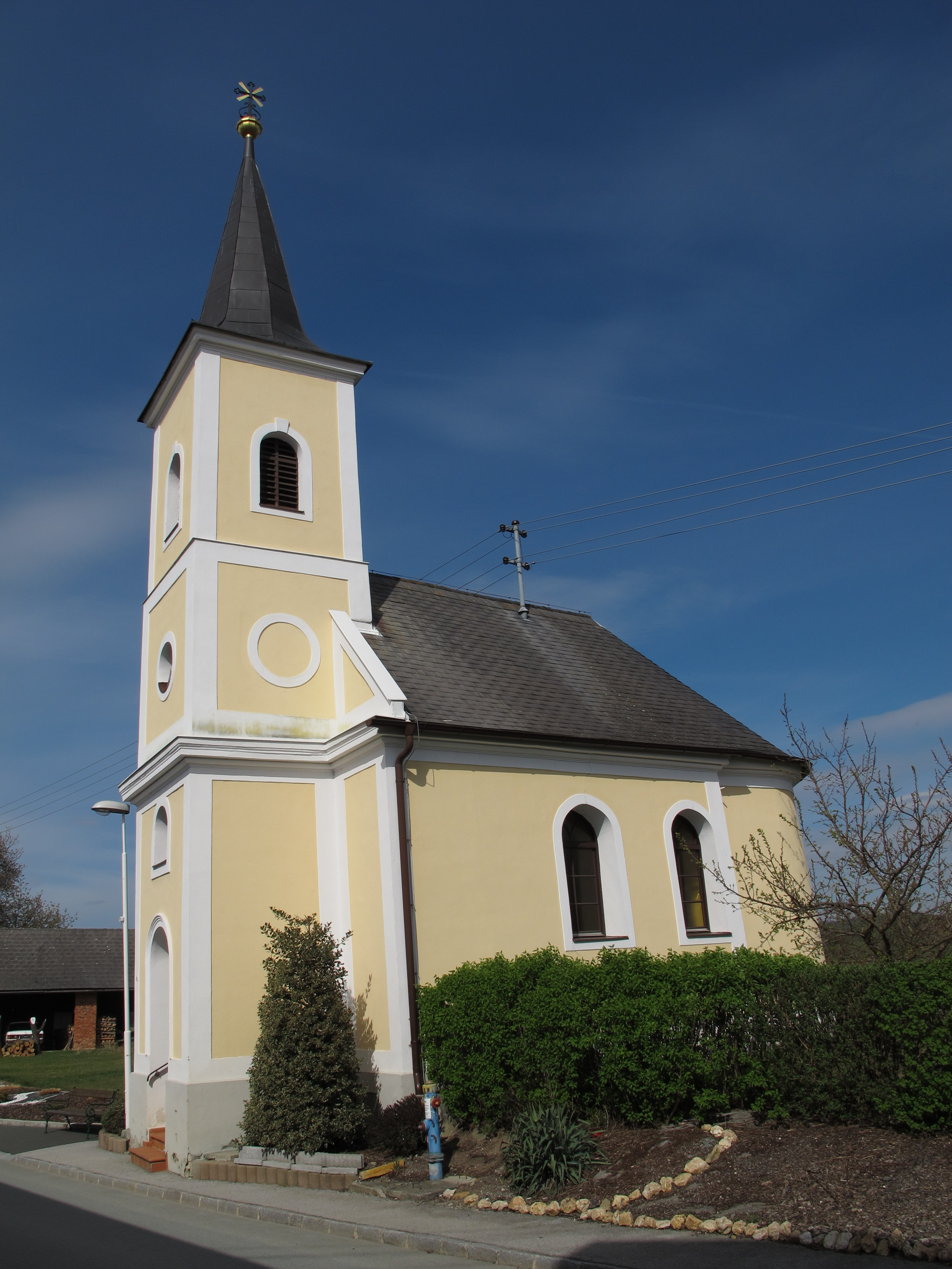 Kirche Podler